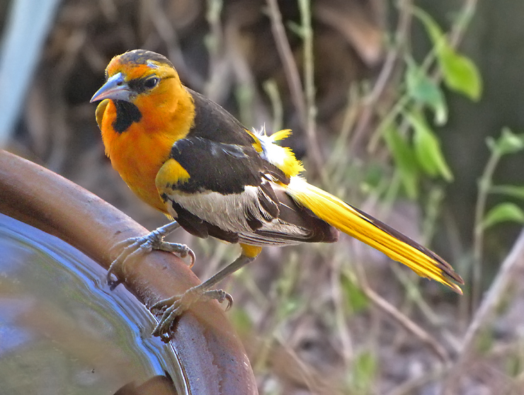 A Bullock's Oriole in Tucson, Arizona, USA.